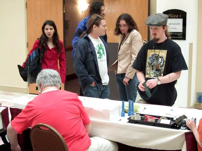 Minicon 41 registration table